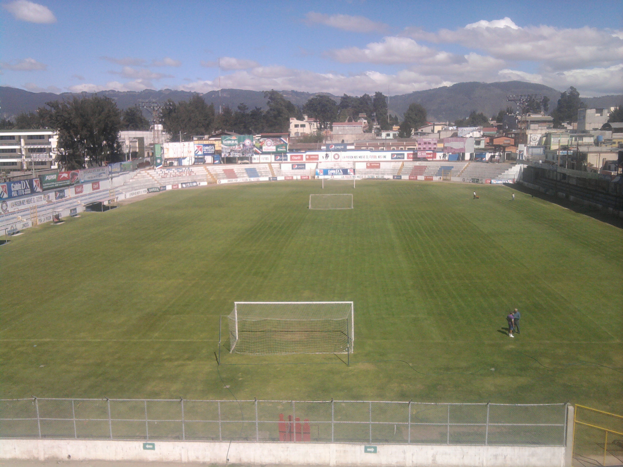 Inside Mario Camposeco Stadium. - Quetzaltenango, Guatemala